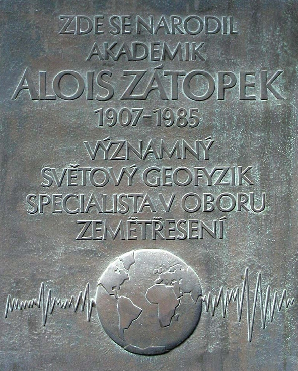 Memorial tablet placed on natal house of Alois Zatopek.